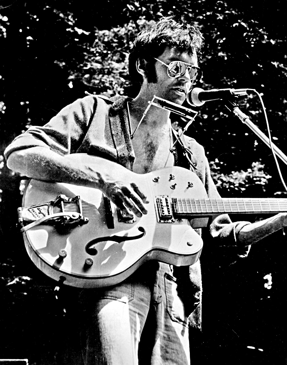 Promotional photo of Neil Young in the 1970s.